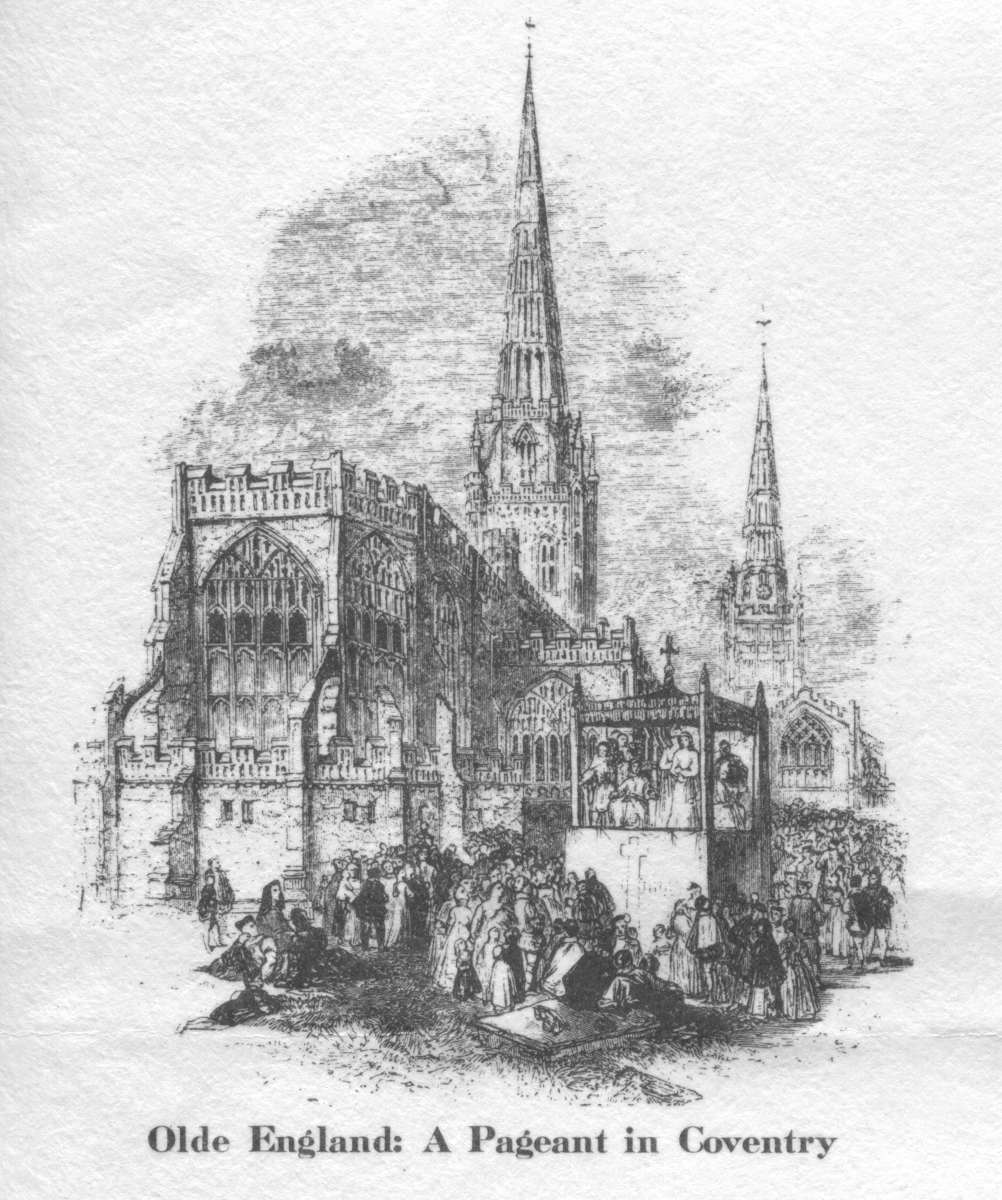 Engraving of A Pageant in Coventry, by St Micheal's Church with the spire of Holly Trinity Church in the background.